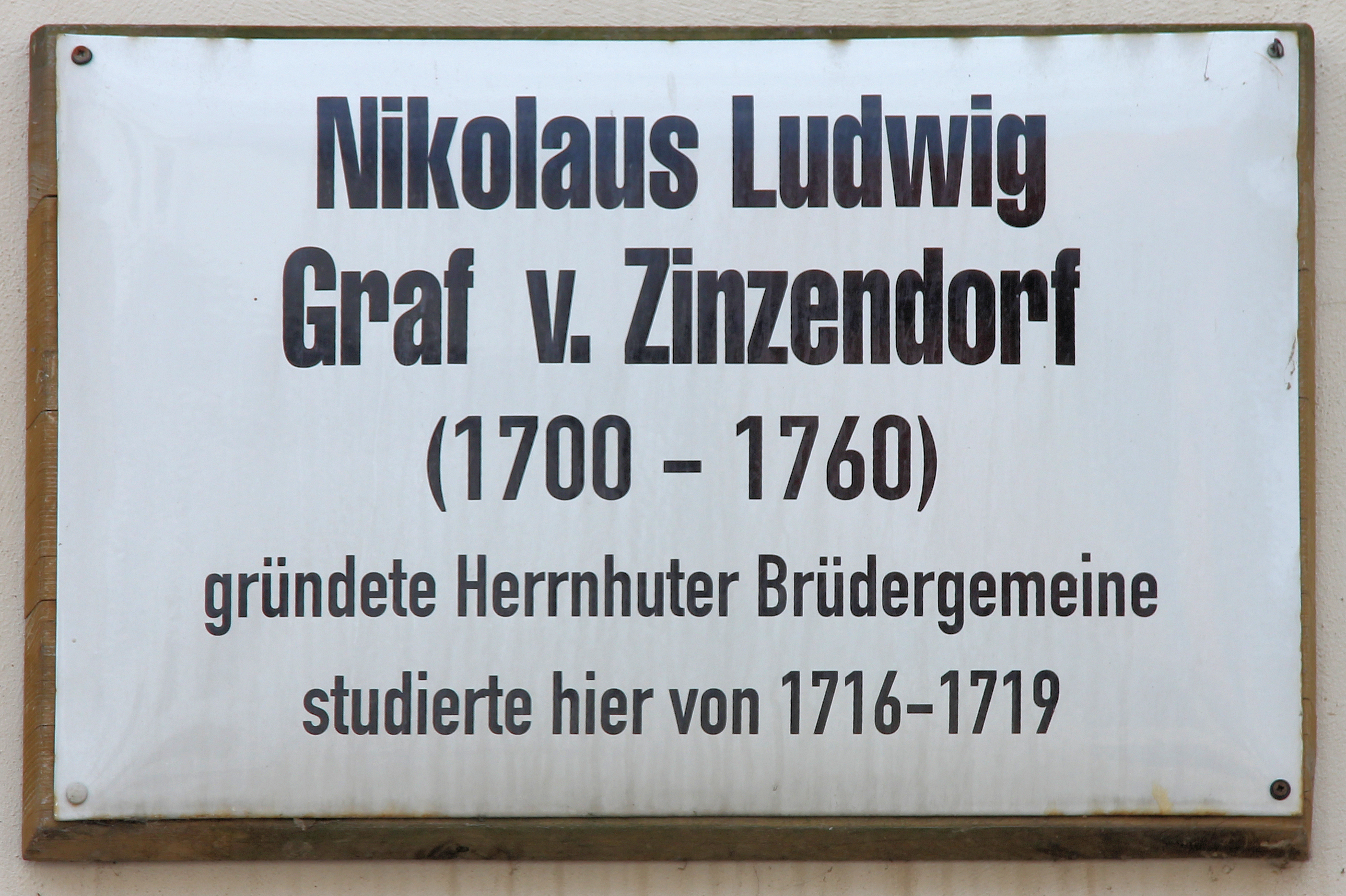 Memorial plaque, Nikolaus Ludwig von Zinzendorf, Schloßstraße 26, Lutherstadt Wittenberg, Germany Koordinate:51°51′59″N 12°38′28″E / 51.86639°N 12.64111°E